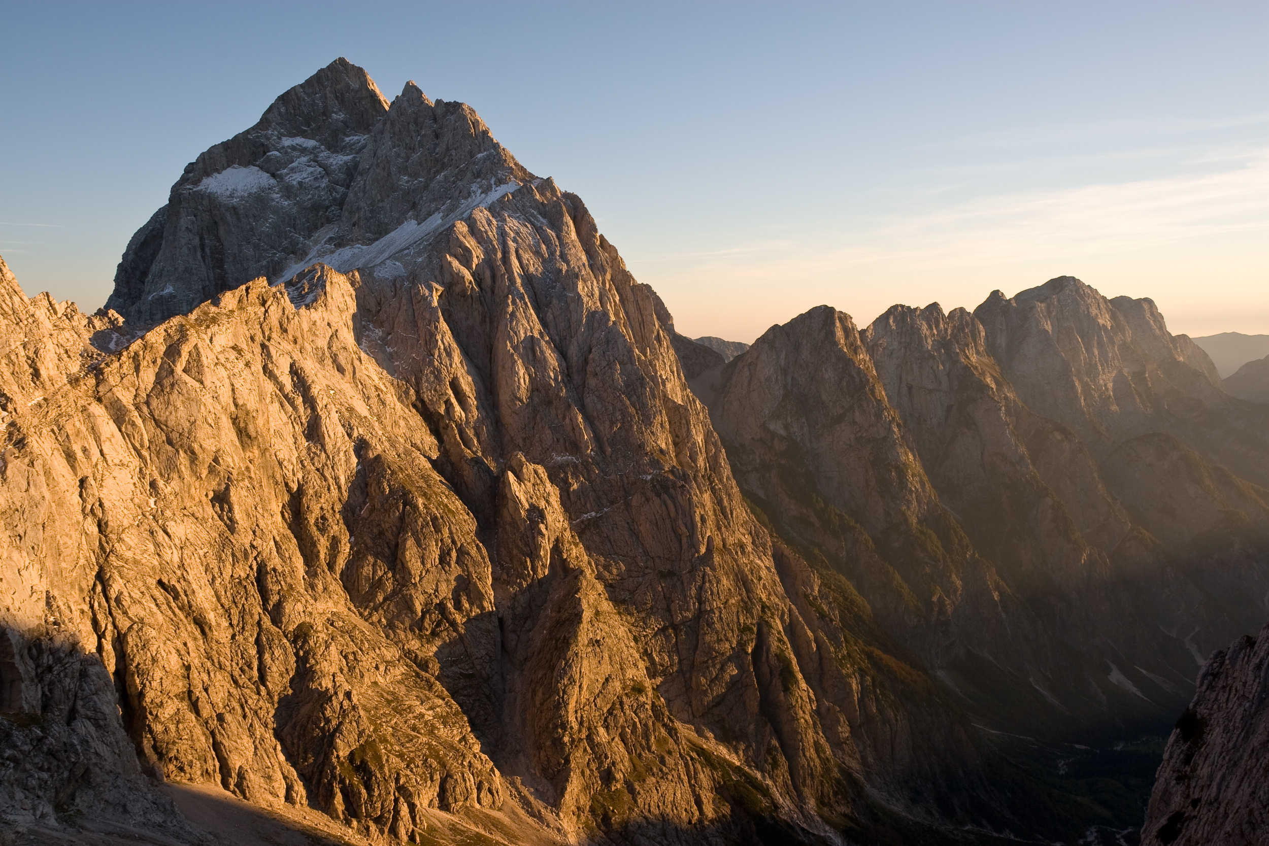 The north side of the Jalovec (2645m) in the Julian Alps, Slovenia. Seen from from Biv. Tarvisio.